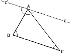 Angles of triangle add up to 180 degrees